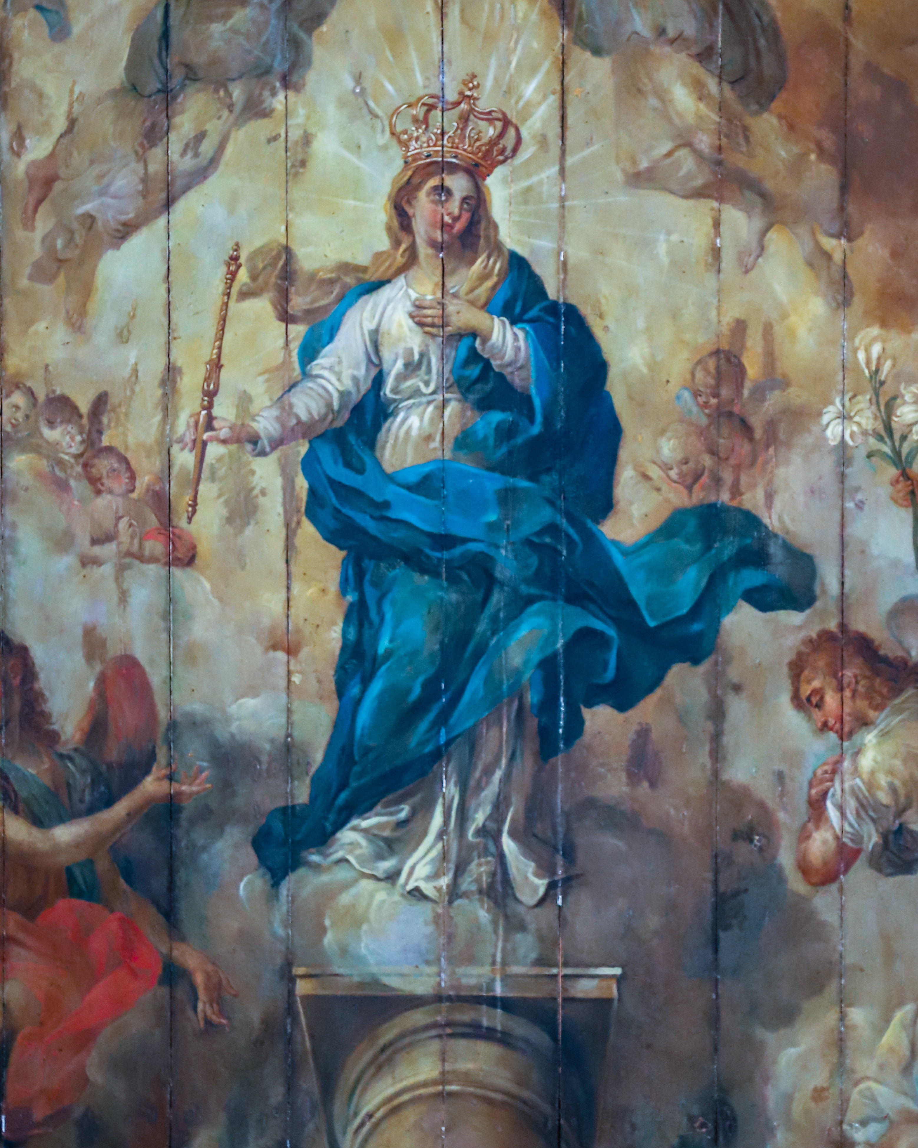 Nossa Senhora do Pilar by José Teófilo de Jesus, Igreja de Nossa Senhora do Pilar, Salvador, Bahia, Brazil.